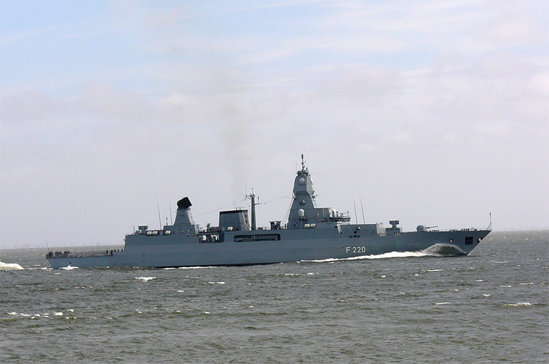 The German frigate Hamburg (F 220) underway.